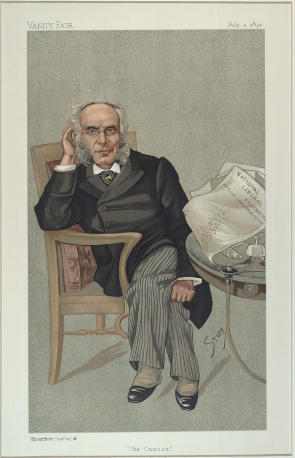 Men of the Day No.542: Caricature of Mr Francis Schnadhorst. Caption reads: "The Caucus"